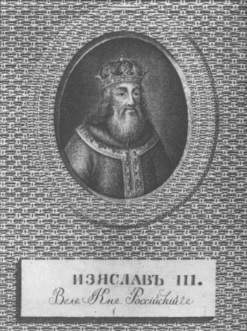 Grand Prince of Kiev Izyaslav Davidovich